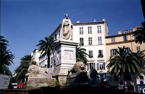 statue of Napoleon in Ajaccio Corsica拿破仑像